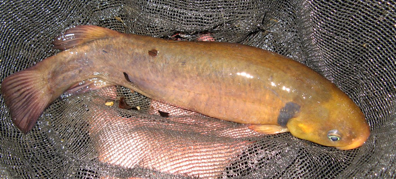 Adult shortjaw kokopu (Galaxias postvectis), Heao Stream, Waitaanga Forest. 29cm length. Photo by Stella McQueen